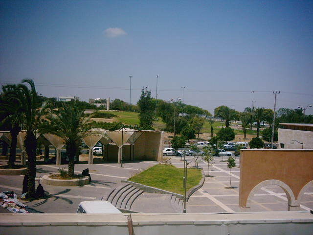 Cities in Israel